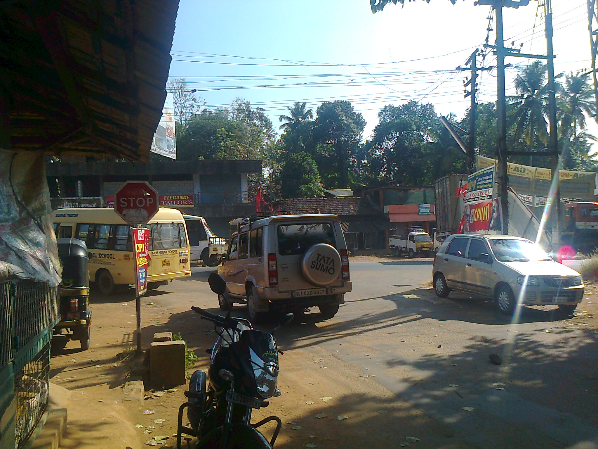 this picture is captured from Mylakkadu-Kannanalloor Road. The Vehicles are entering to NH 47 from Mylakkadu-Kannanalloor Road